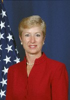 Depicted person: Katherine Canavan – former US ambassador to Botswana